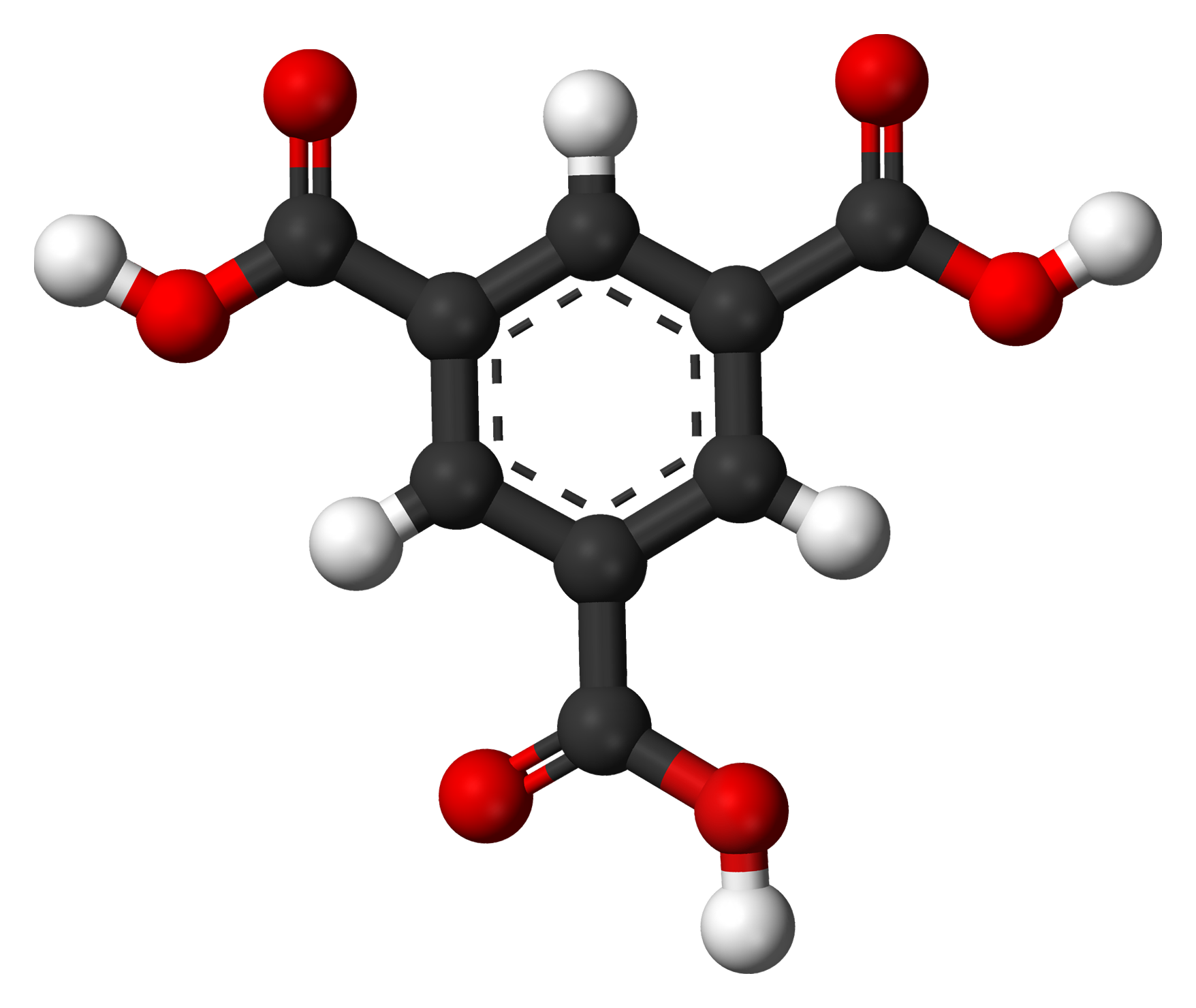 Ball-and-stick model of the trimesic acid molecule.